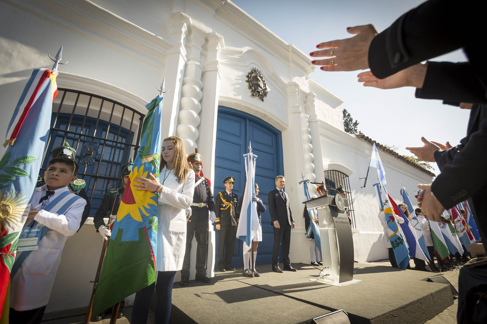 Bicentenario de Argentina en Tucumán